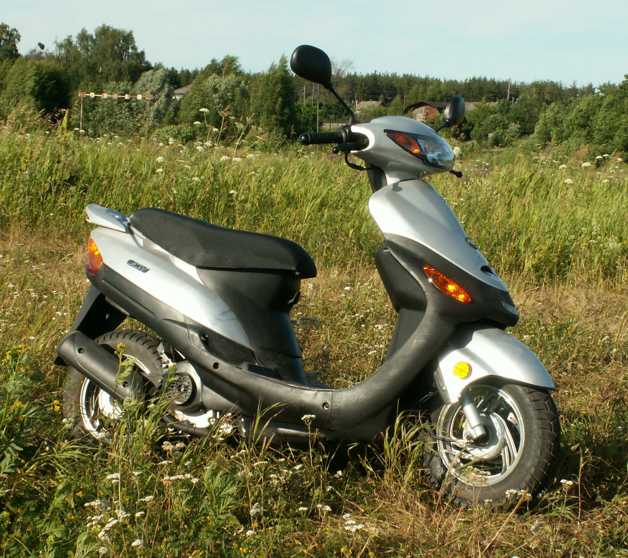 Scooter type Baltmotors Joy-R